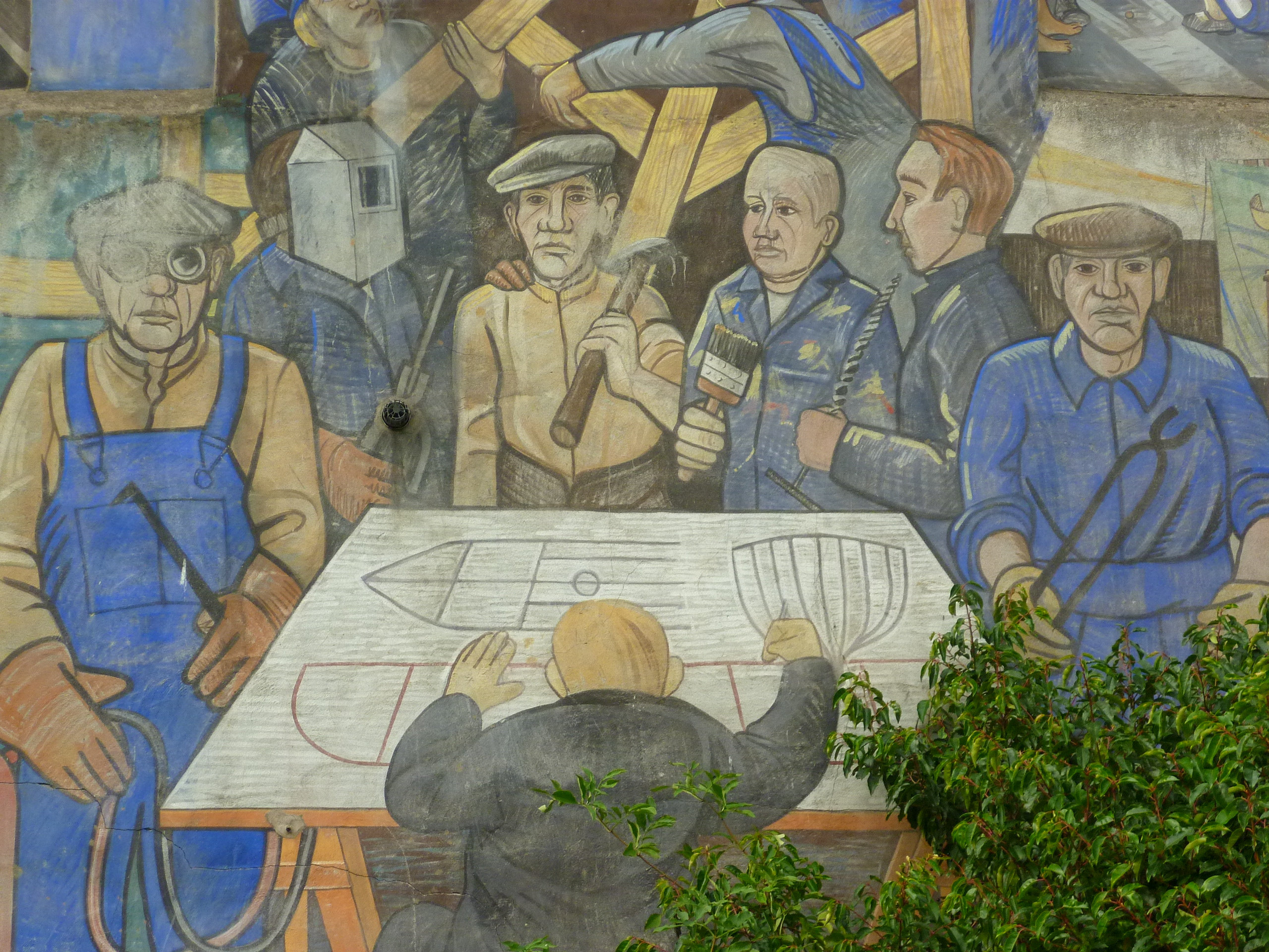 Detail of the Leith Mural on a tenement gable in North Junction Street Leith